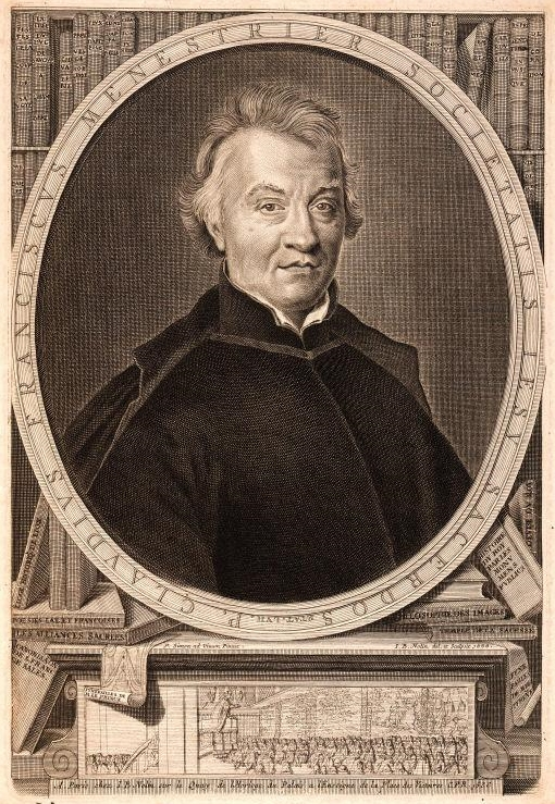 French historian and heraldist Claude-François Ménestrier (1631-1705)